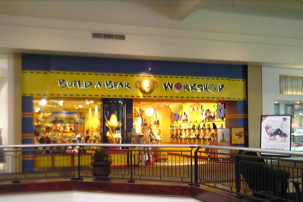 Build-A-Bear Workshop in Barton Creek Mall in Austin, Texas